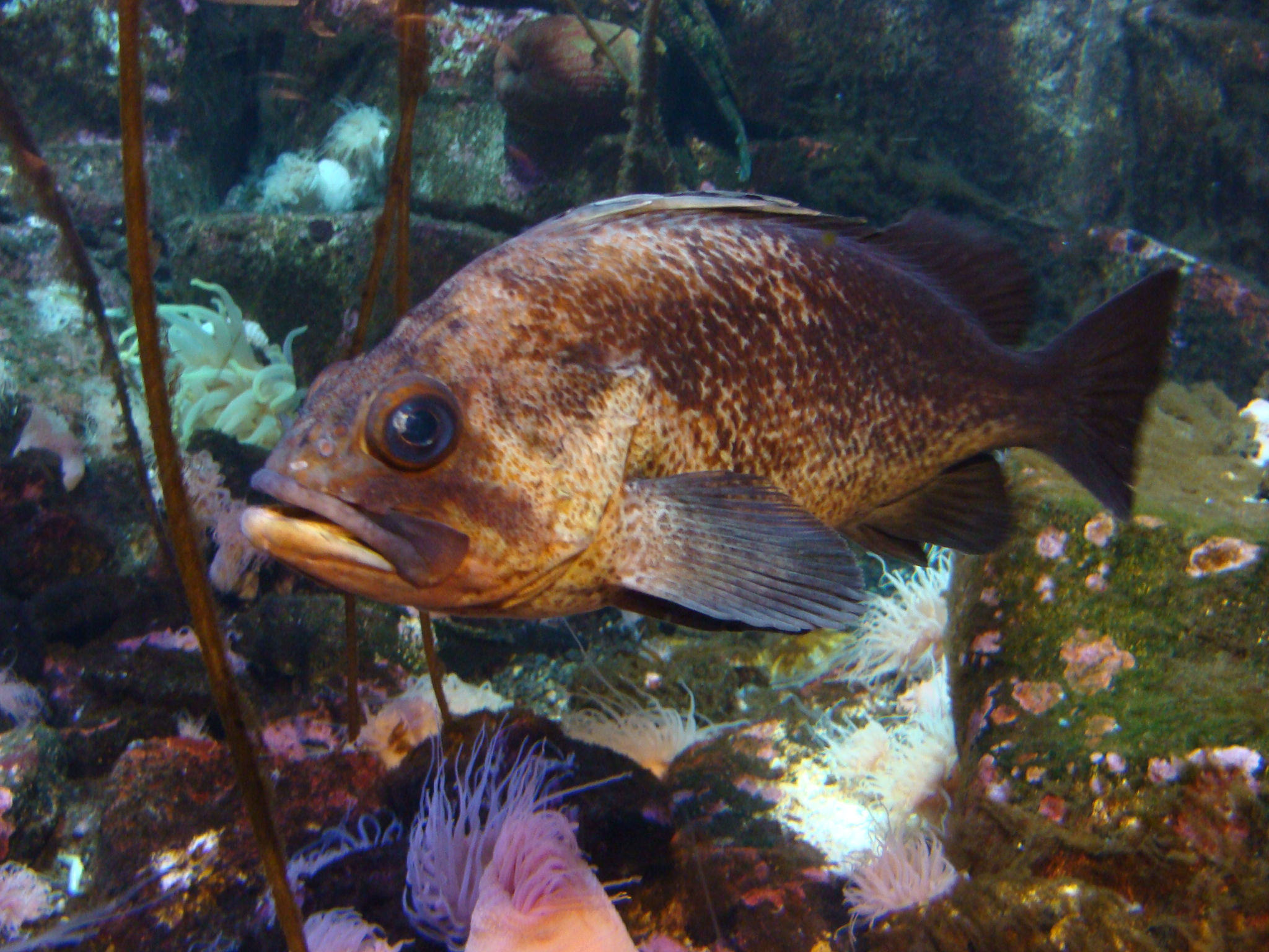 Quillback Rockfish at the Alaska Sealife Center, Seward, AK